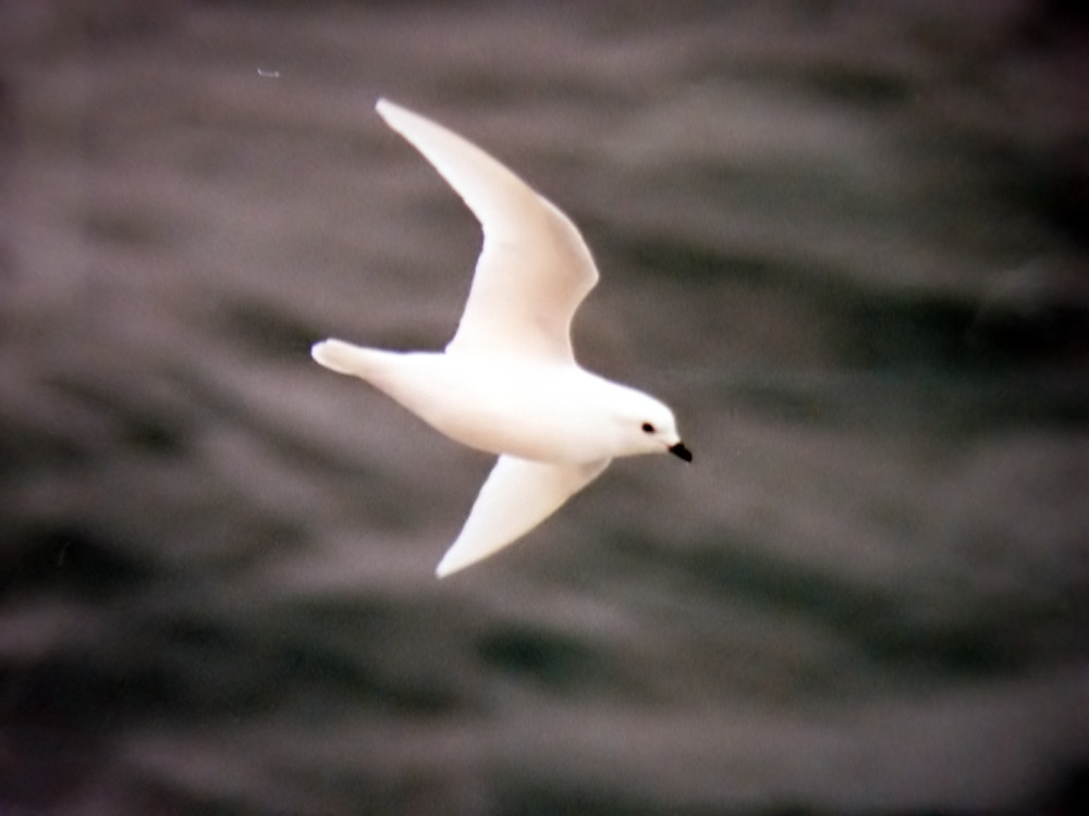 Snow Petrel,Pagodroma nivea in Ross sea, Antarctica. The image is a digital picture of an old print.